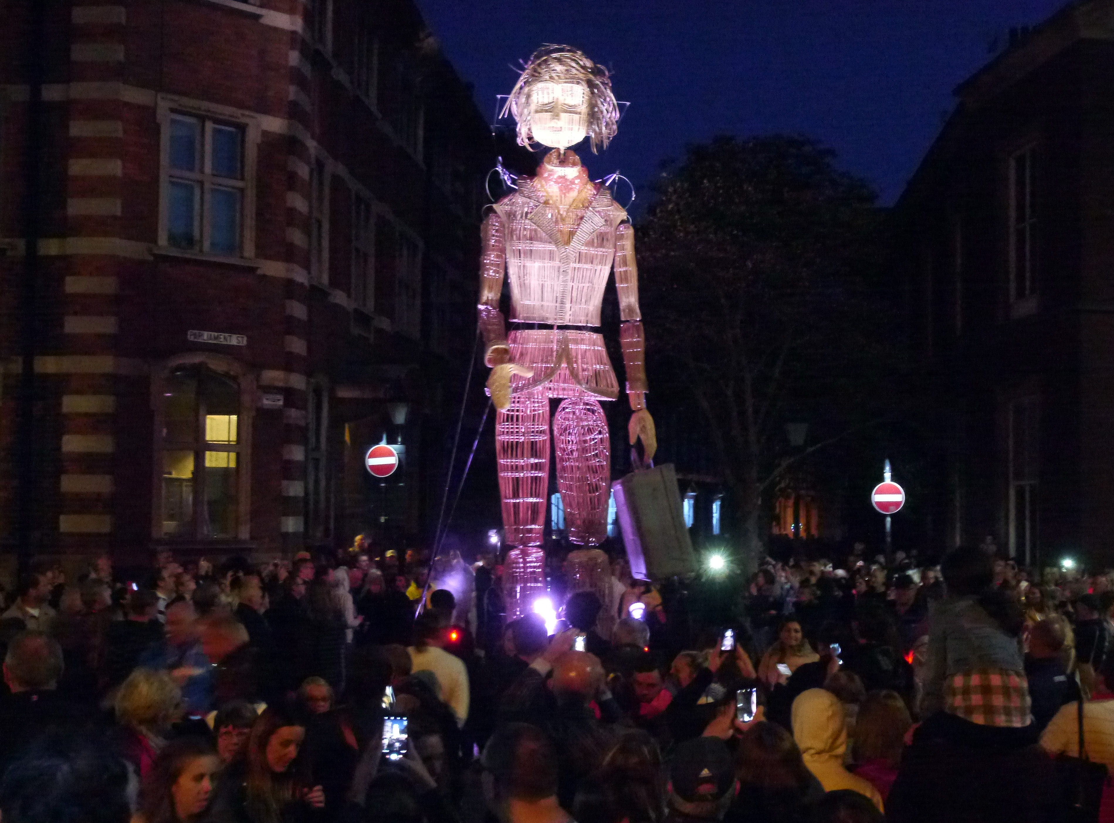 L'Homme Debout giant parade at Hull Freedom Festival